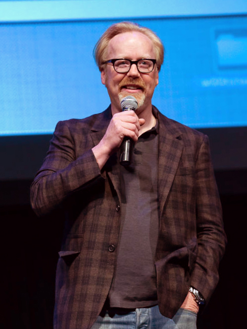 Adam Savage speaking at W00tstock 3.0 in Downtown San Diego, CA, U.S.